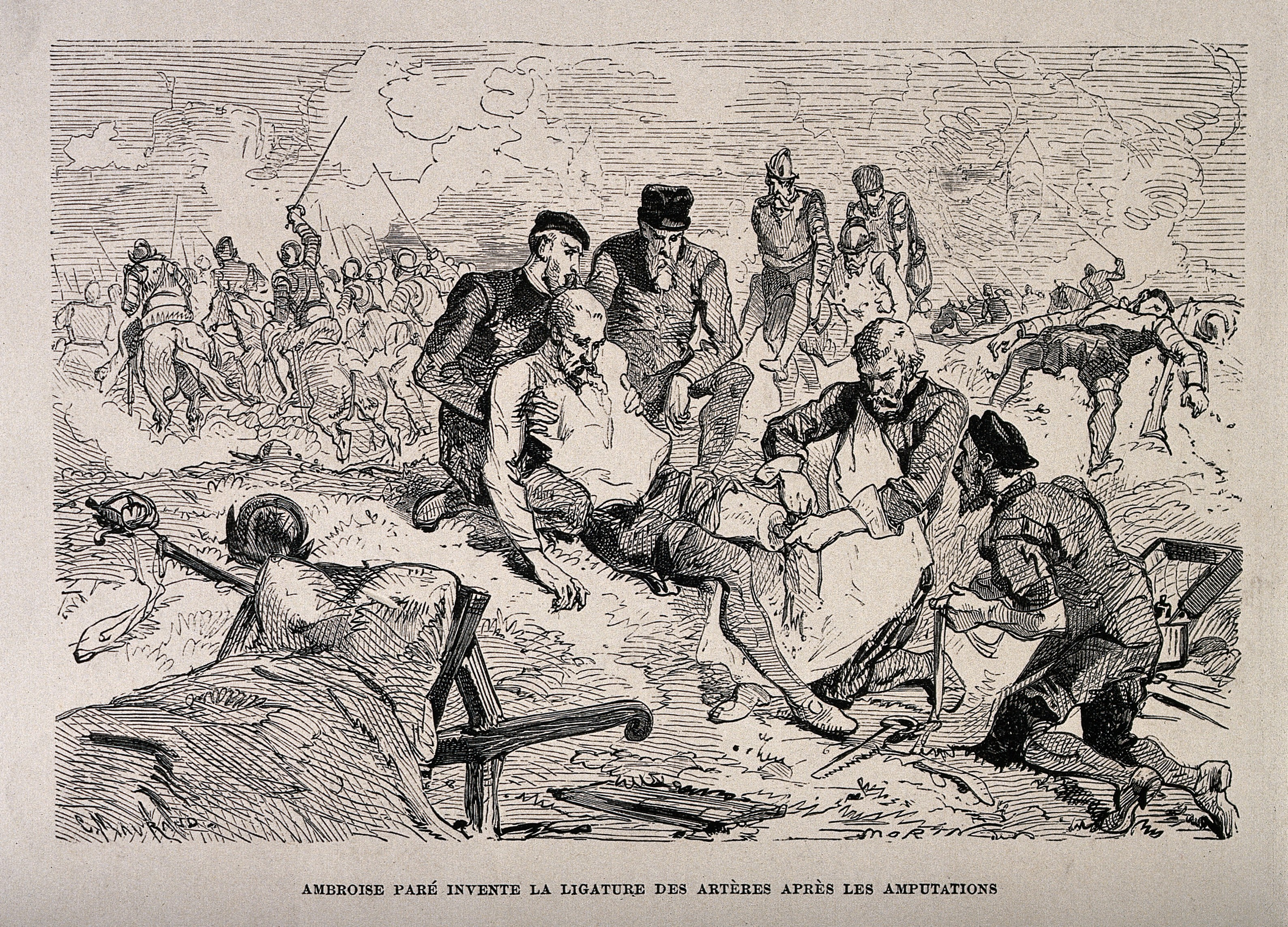 Ambroise Paré, on the battlefield using a ligature for the artery of an amputated leg of a soldier. Wood engraving by C. Maurand. Iconographic Collections Keywords: Charles Maurand; Ambroise Paré